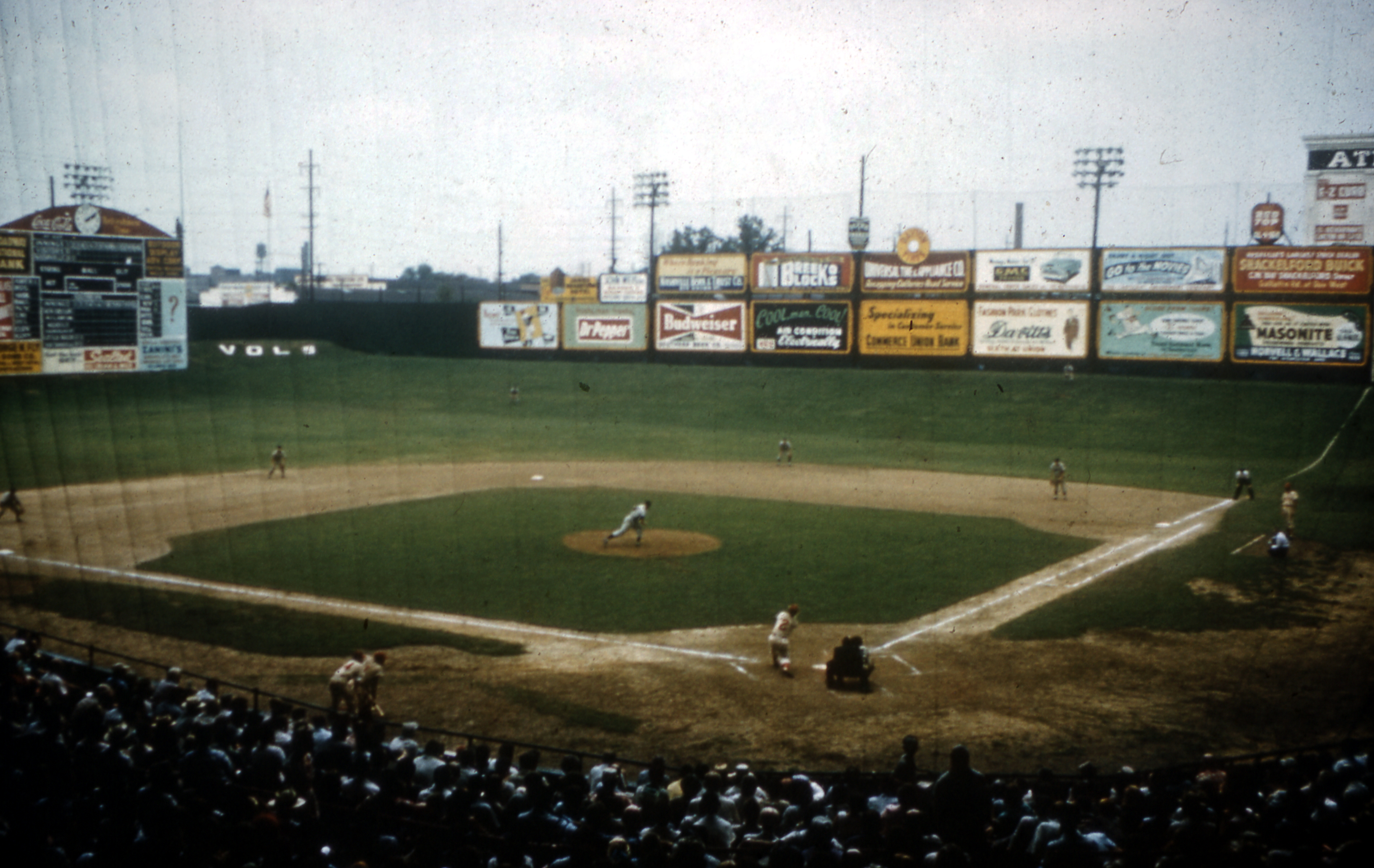 A baseball game at Sulphur Dell, a minor league baseball park in Nashville, Tennessee, in the late 1950s to early 1960s